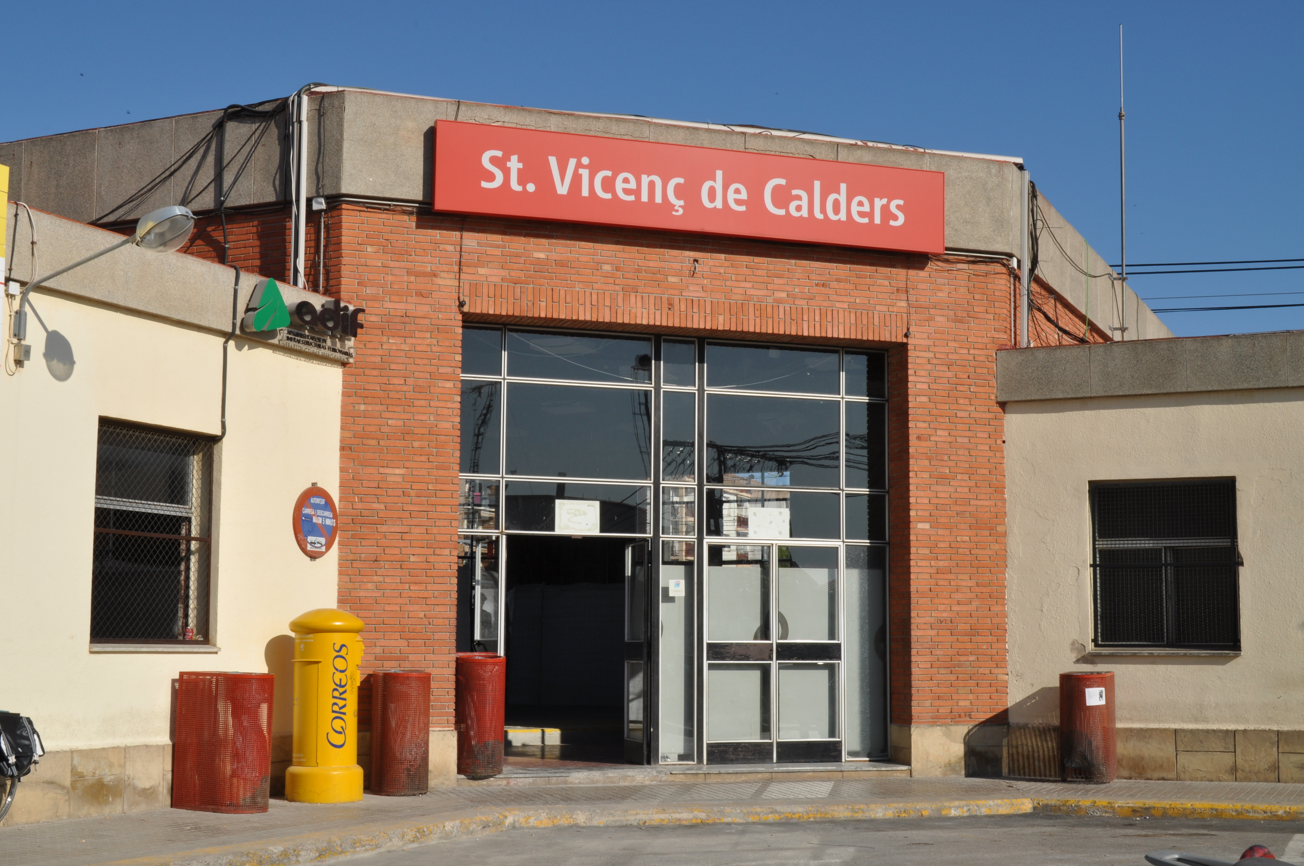 Entrance to the railway station of Sant Vicenç de Calders (Catalonia, Spain).